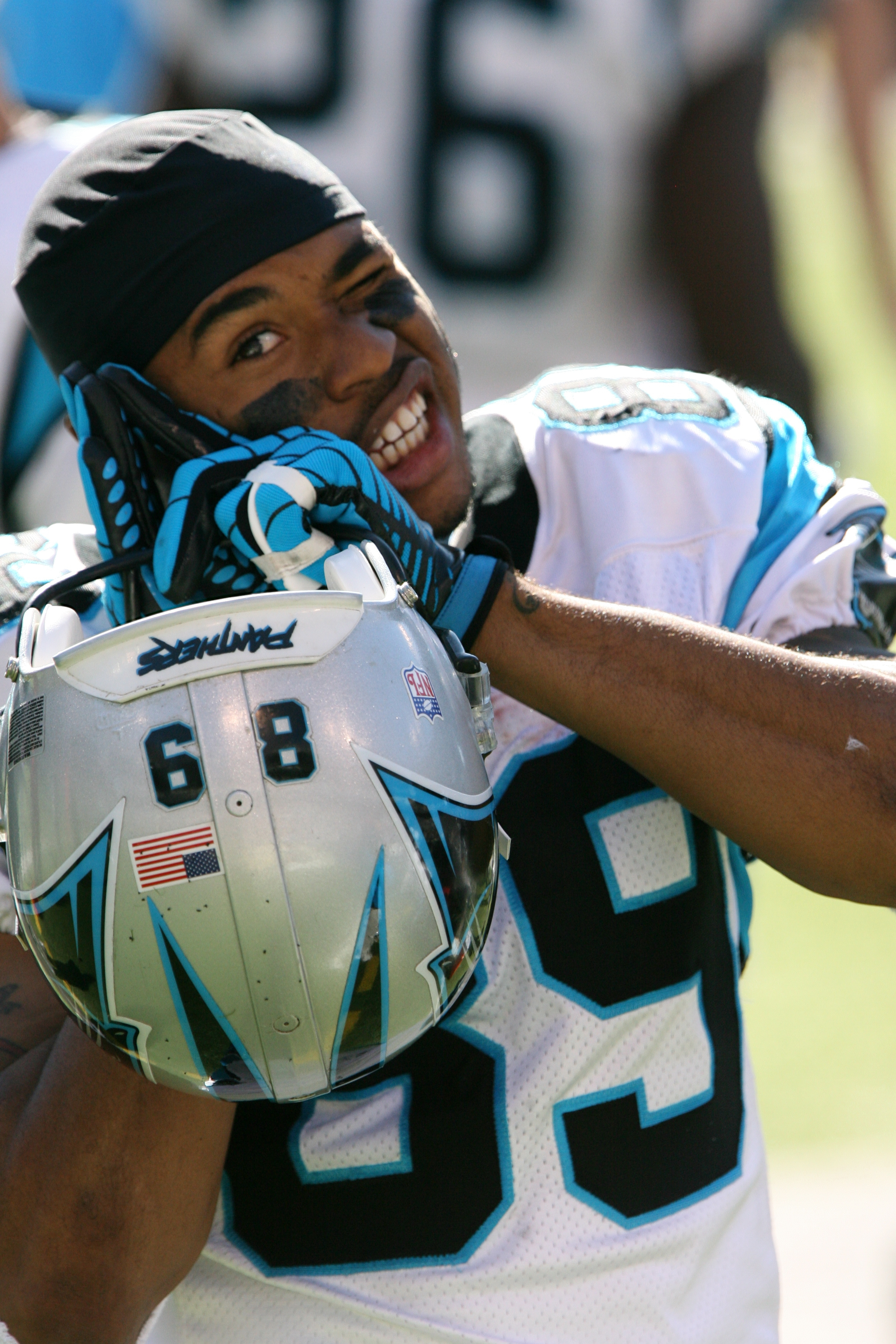 Steve Smith, American football wide receiver for the Carolina Panthers